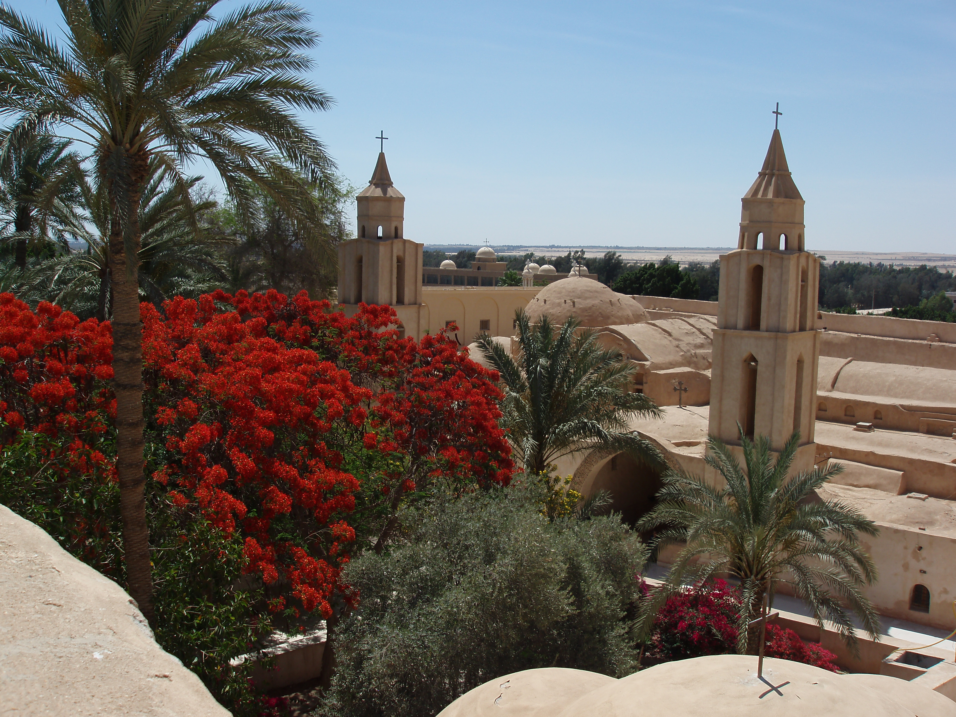 The St. Bishoy Monestary in Wadi El-Natrun, Egypt.